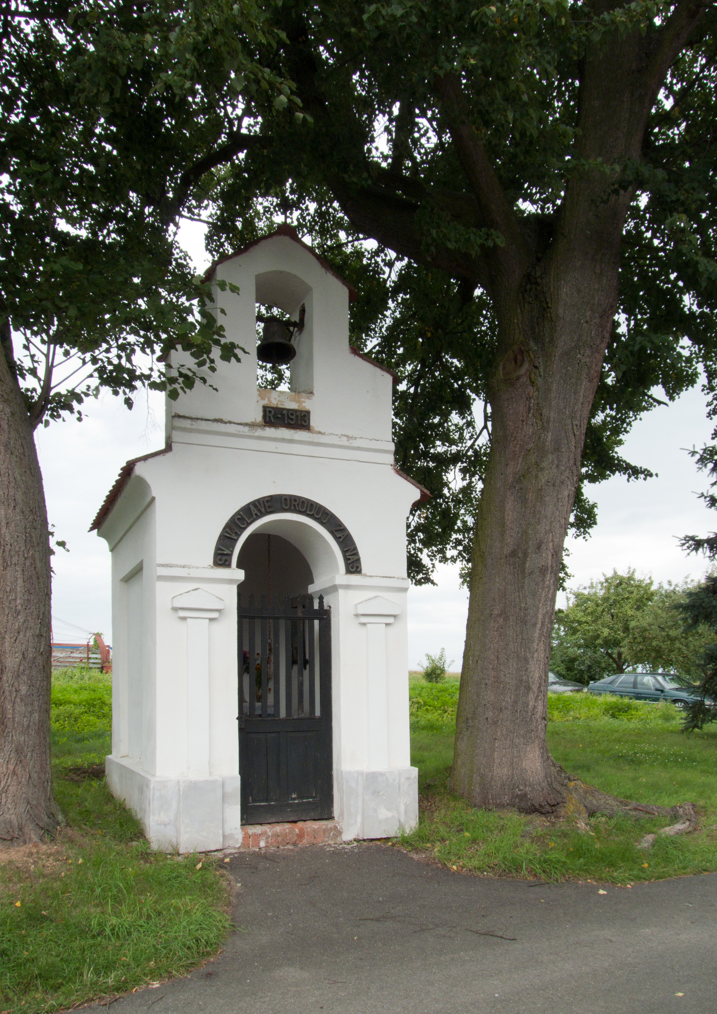 Chapel in the village of Újezd, České Budějovice District, Czech Republic dated 1913